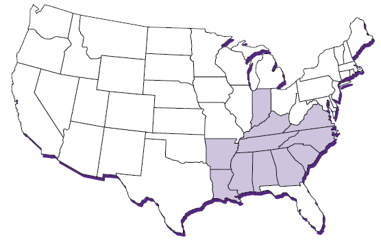 State map of the United States showing the Stroke Belt, a region with higher stroke incidences.